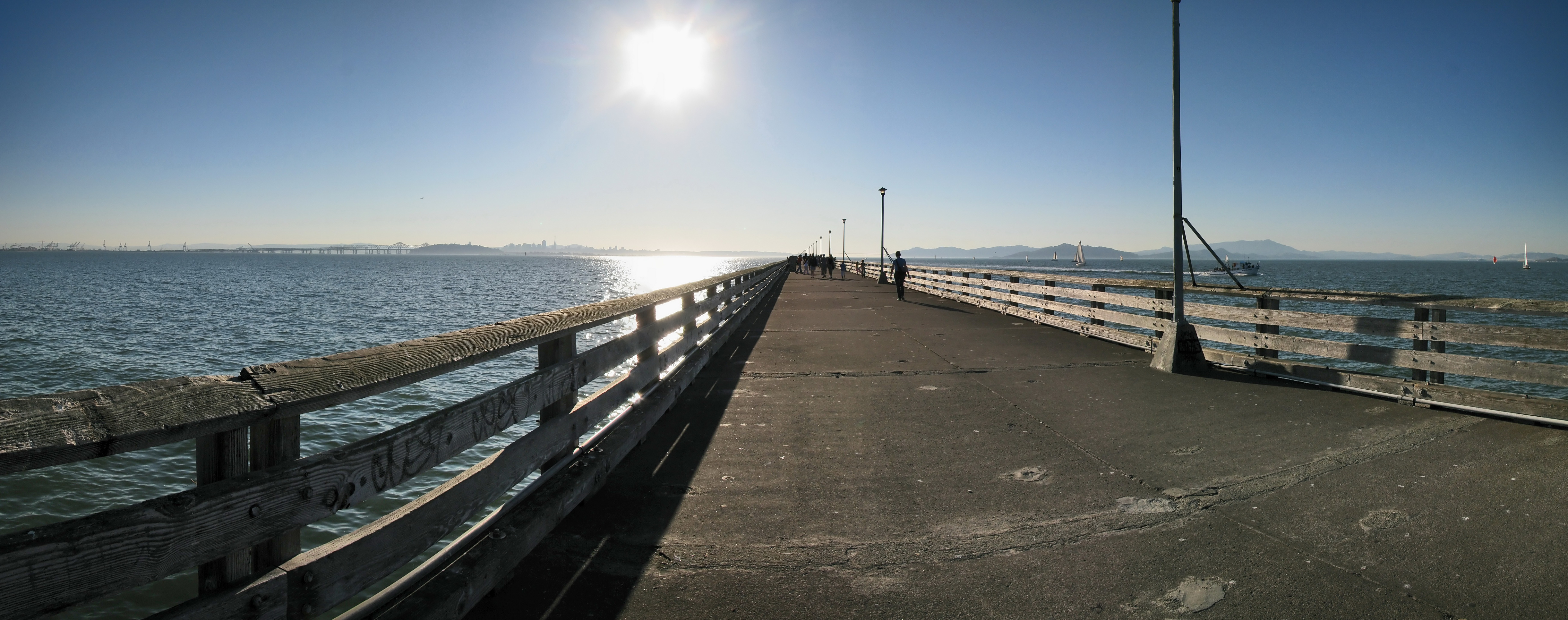 View westward from the deck of the Berkeley Pier, November 2007. Visible in the distance (left to right) are the Port of Oakland, The Bay Bridge, Yerba Buena Island, downtown San Francisco, the Golden Gate Bridge, the Marin Headlands, and Angel Island|Angel Island, California|Angel Island.